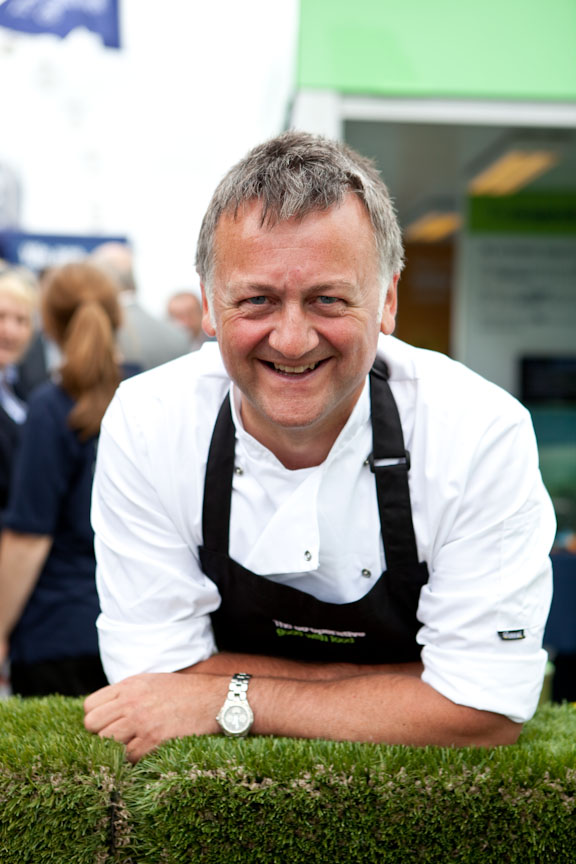 Jon Mitchell in 2011 - CoOp_Yorkshire-1091